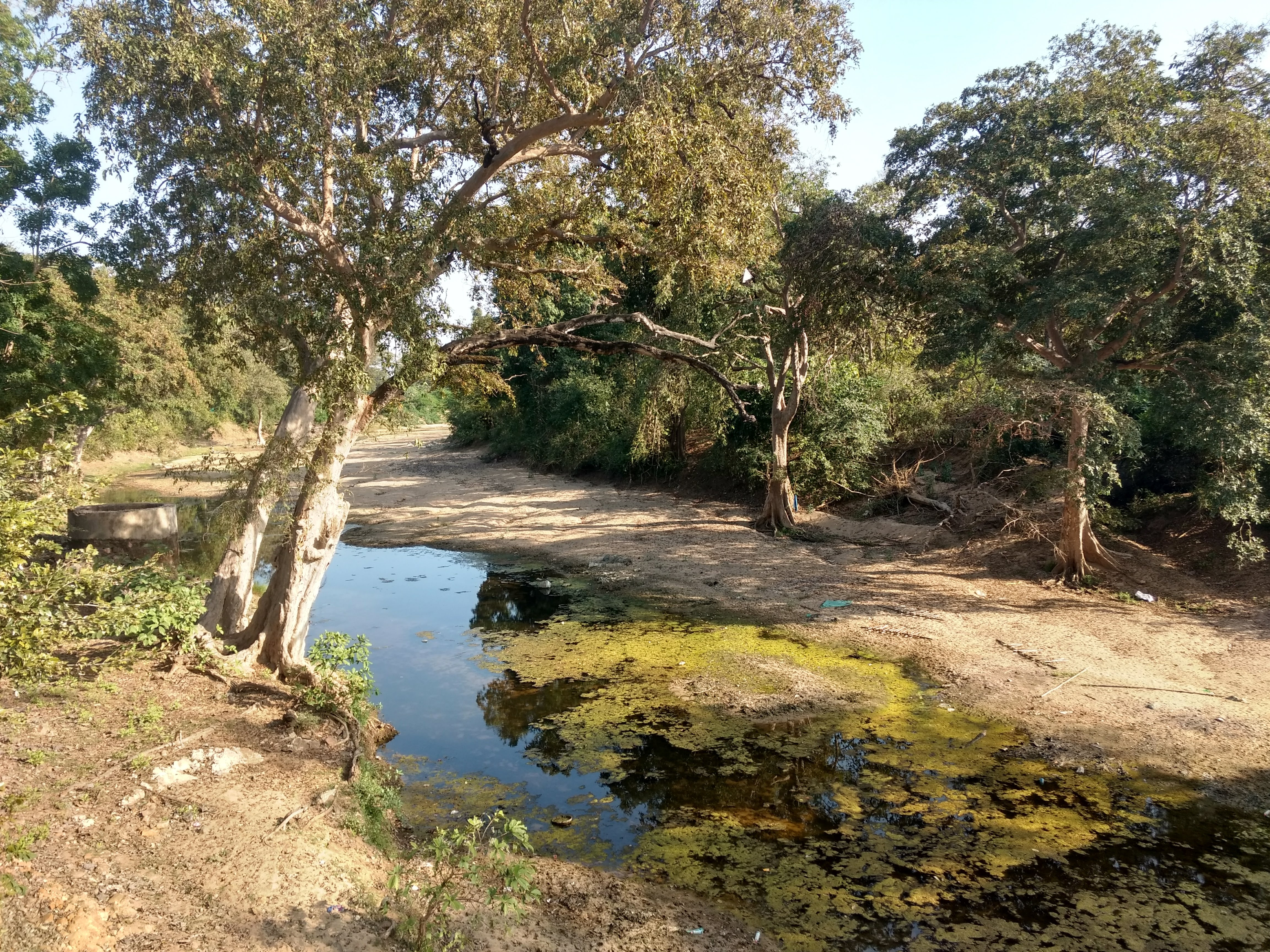 Bamar River, a minor river tributary of Pranhita, photograph taken from a bridge on NH 353C.